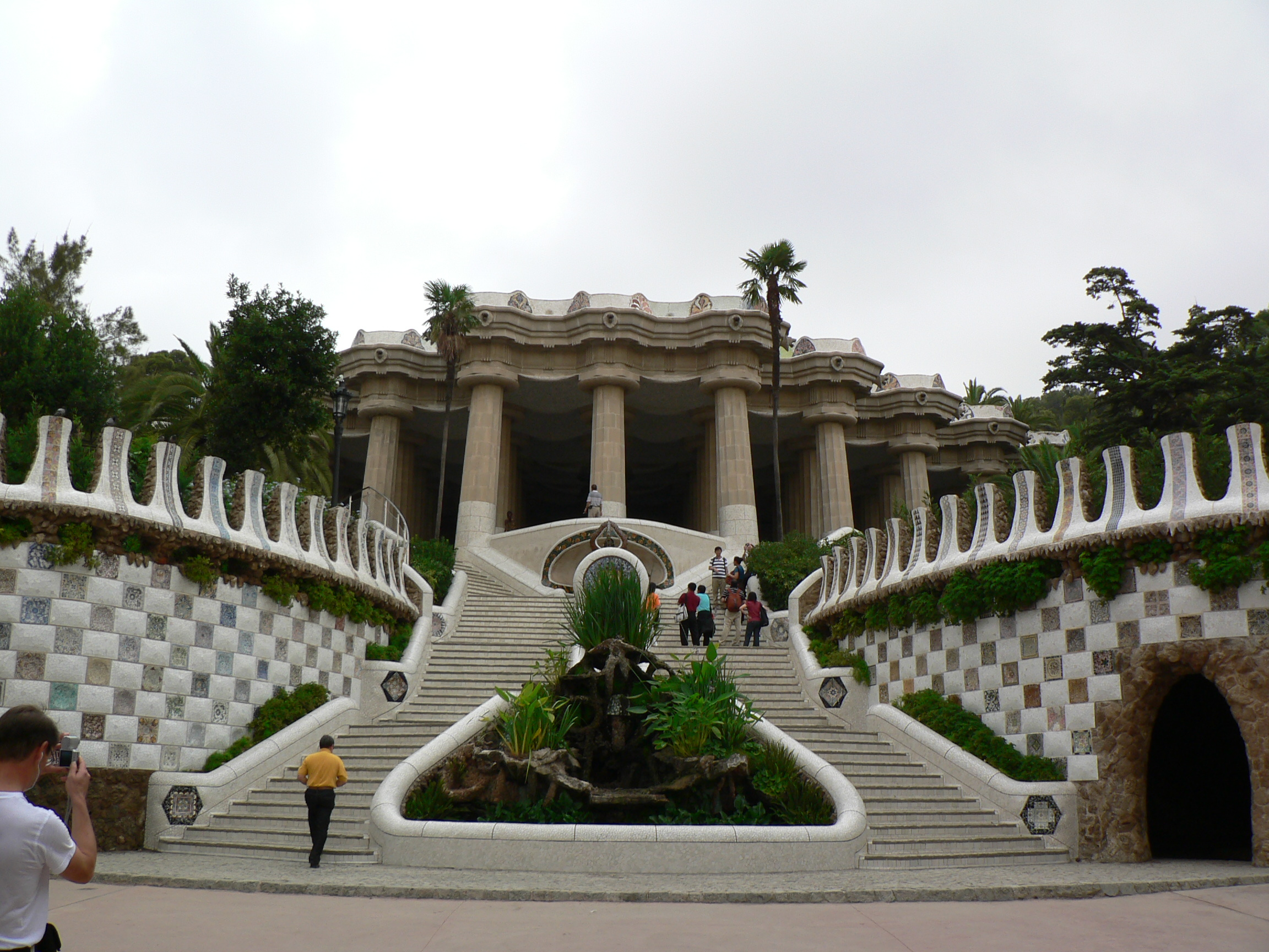 Barcelona, Spain